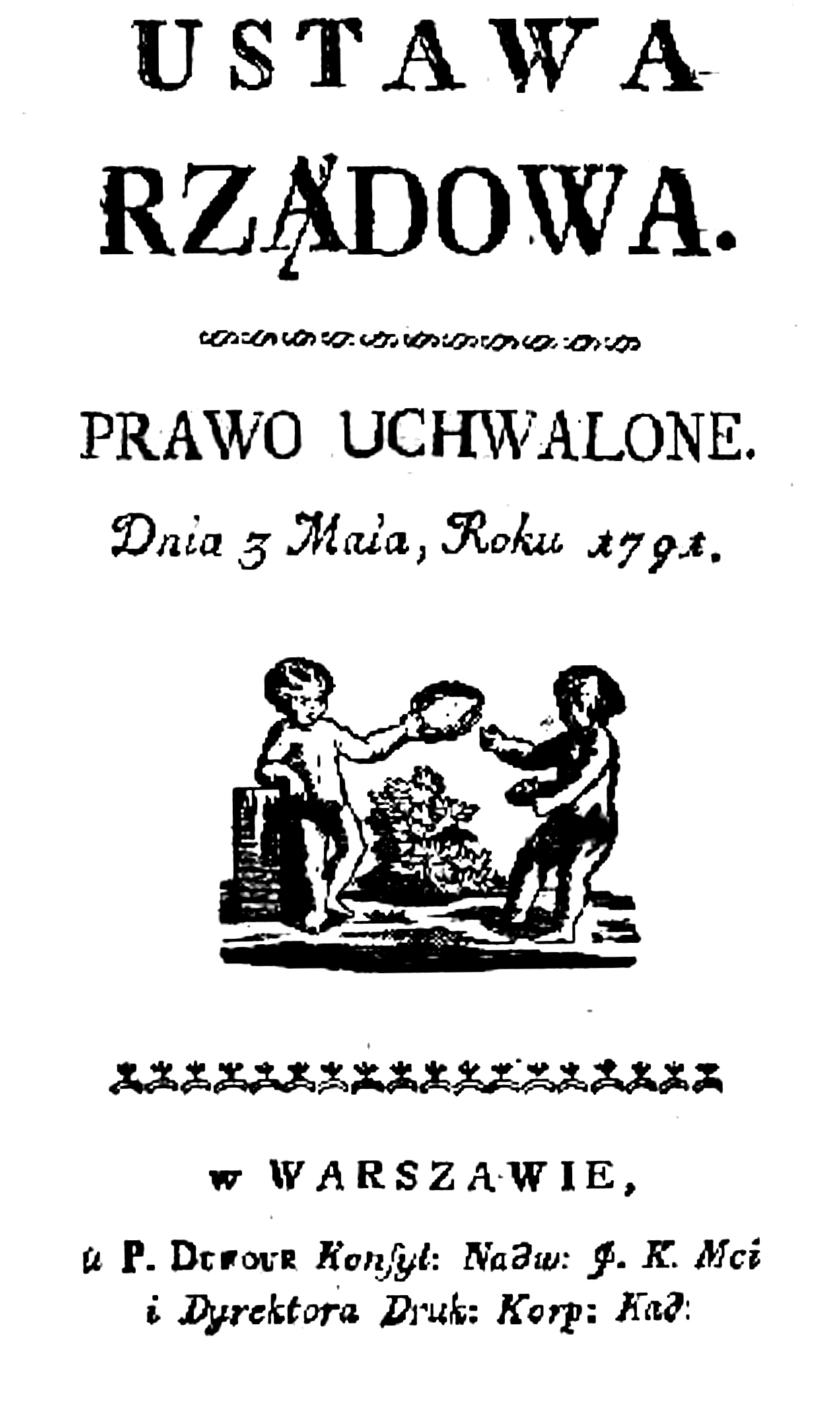 Title page of 1791 printed edition of the Government Act (May Constitution of Poland). Printed by Piotr Dufour (1730-1797).